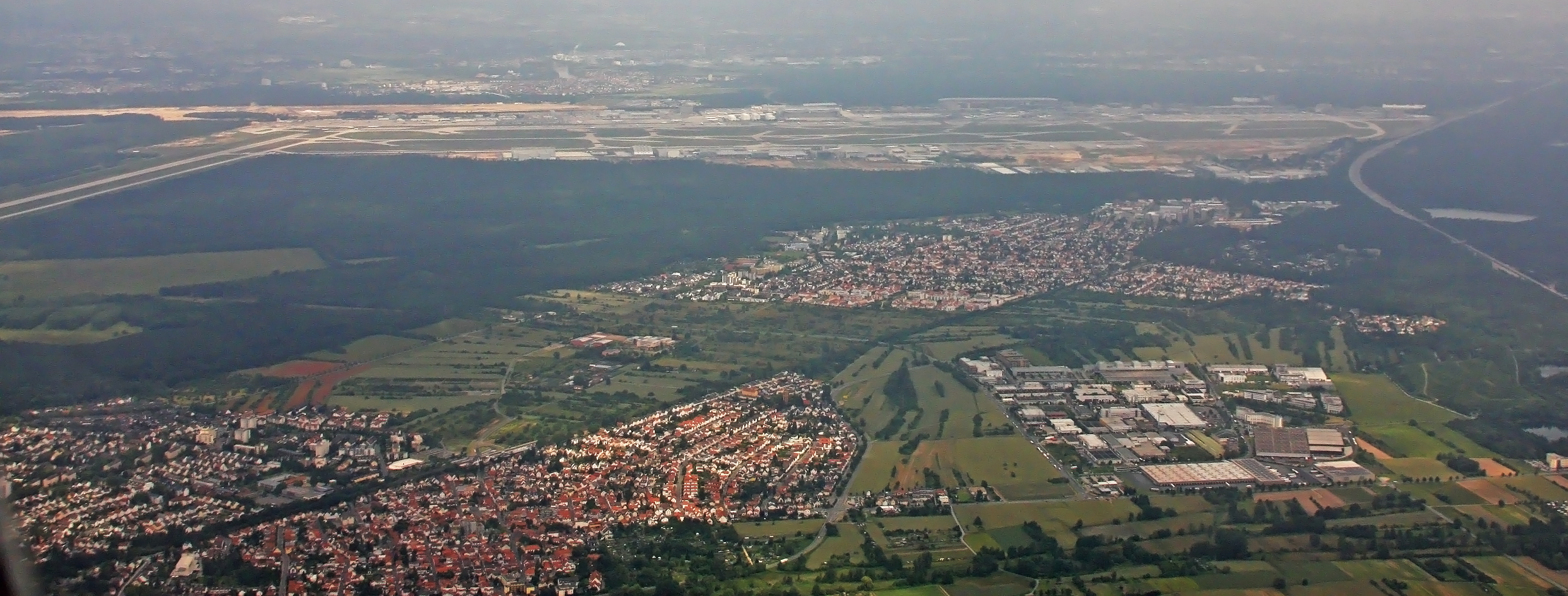 Mörfelden-Walldorf, with Frankfurt International Airport in the background. Hessen, Germany. Seen from the south towards the north.